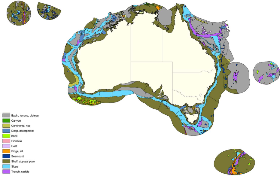 Map of Geomorphic Units of the ocean floor within the Australia EEZ. Defined from geomorphic features using bathymetric models. Modified version of